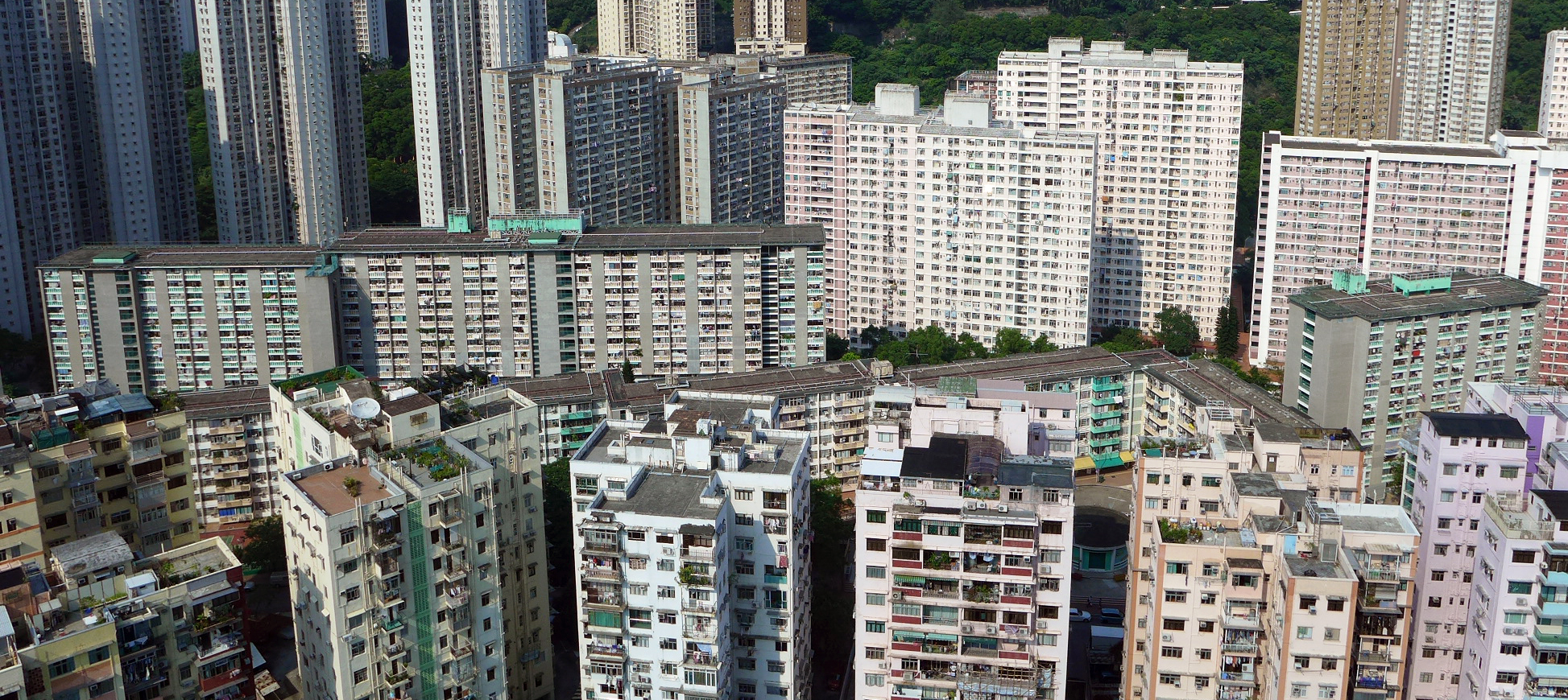 Wo Lok Estate